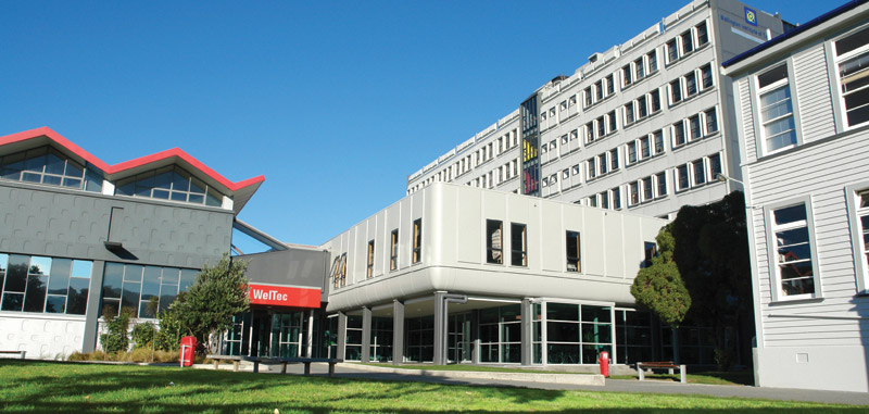 Petone Campus, 11 Kensington Avenue, Petone, Wellington, New Zealand